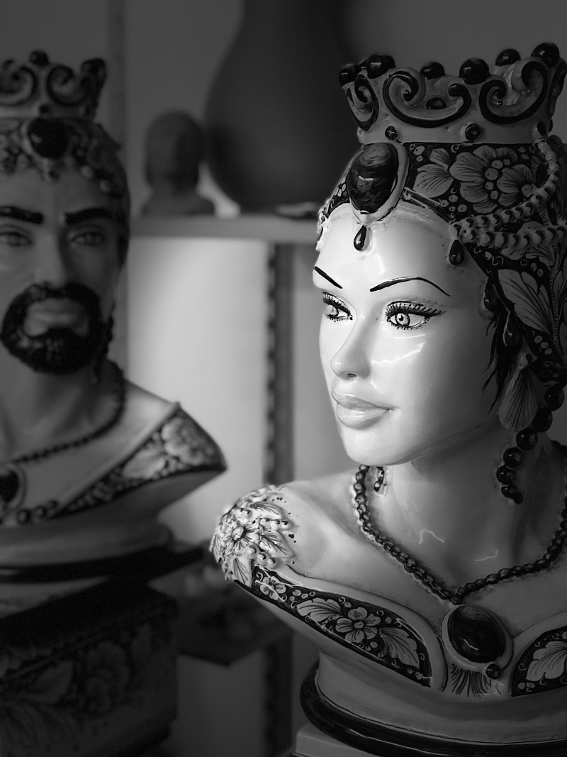 Sicilian majolica vase "I Mori Siciliani". Artistic creations by Agatino Caruso in Caltagirone.